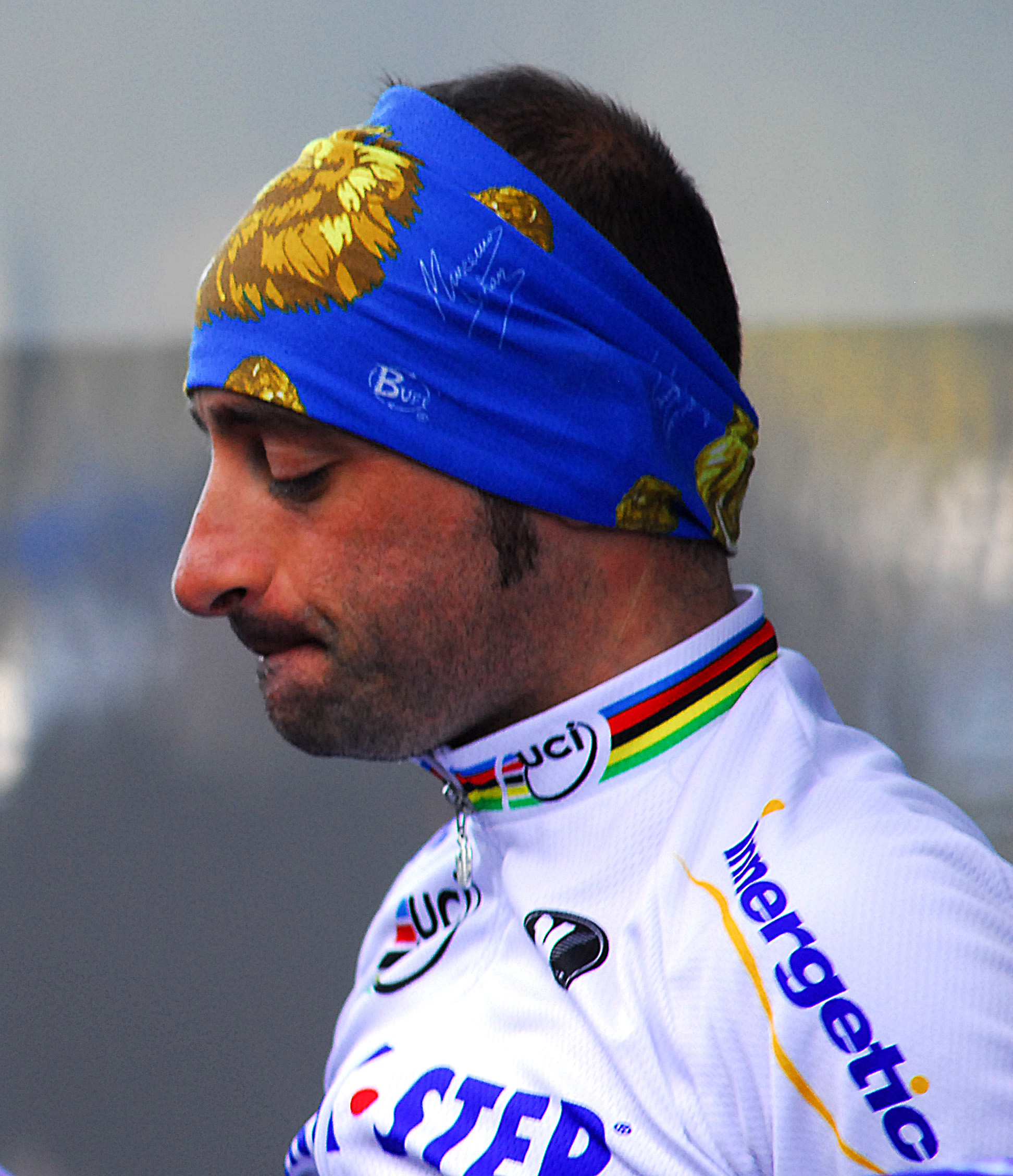 Paolo Bettini, Italian road cyclist with the Belgian Quick Step-Innergetic professional cycling team. He is the gold medal winner of the 2004 Athens Olympics road race and of the 2006 World Road Race Championship.